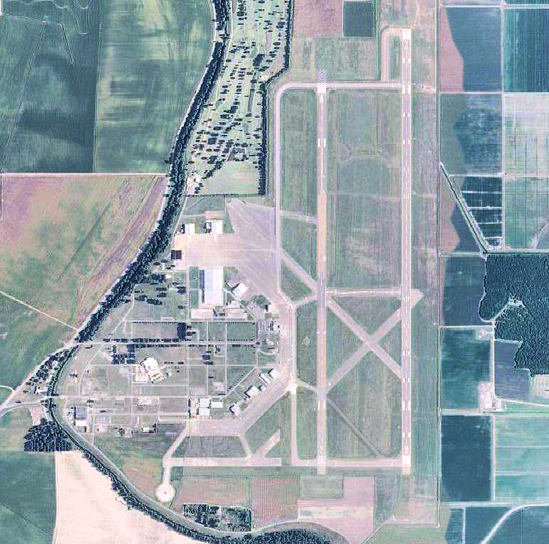 USGS digital orthophoto of Mid Delta Regional Airport in Mississippi